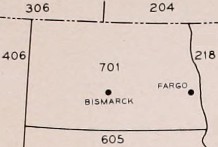 North Dakota area code 701, as of 1952.